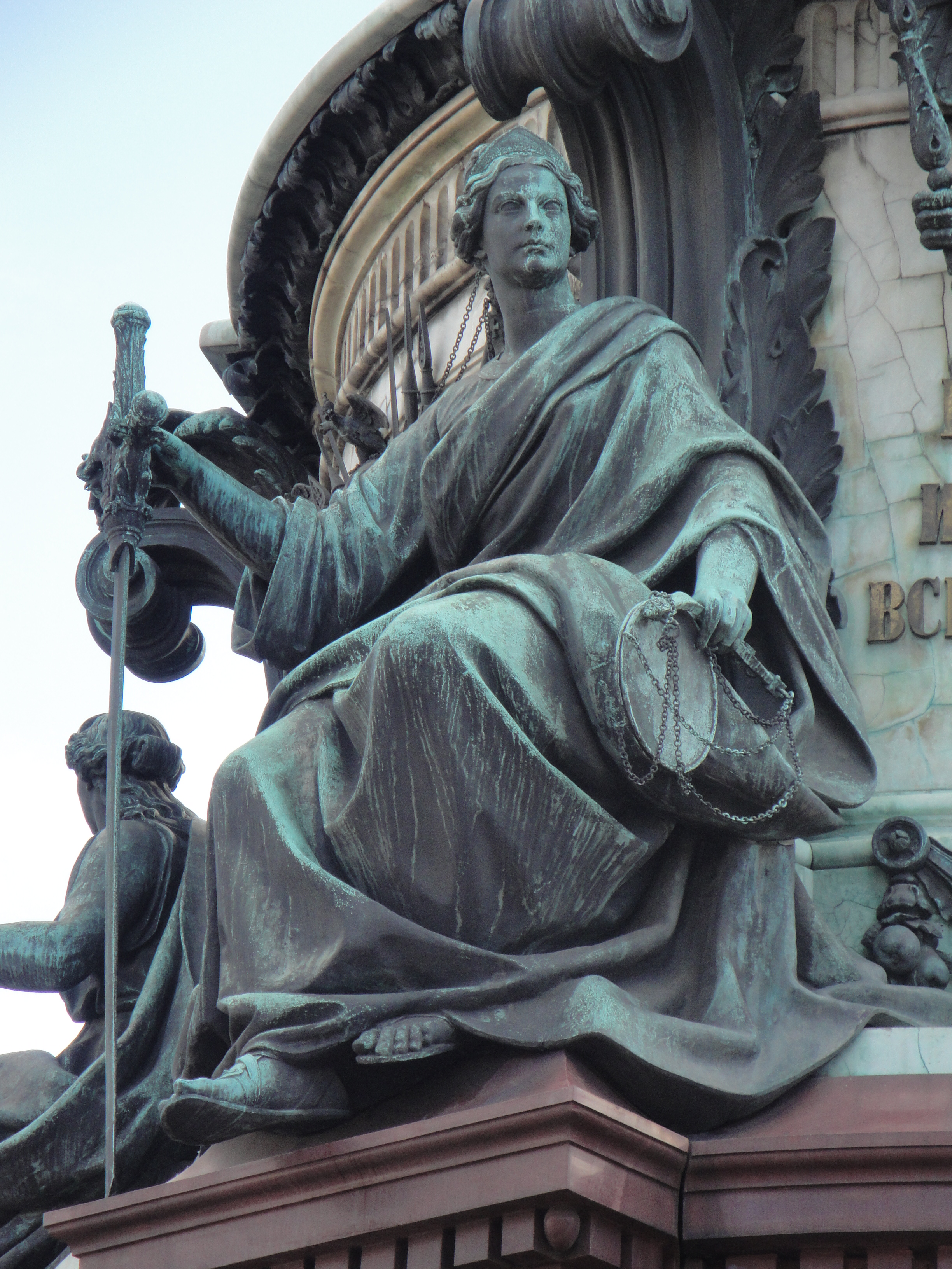 Allegorical figure of "Justice" on the pedestal of the monument to Nicholas I